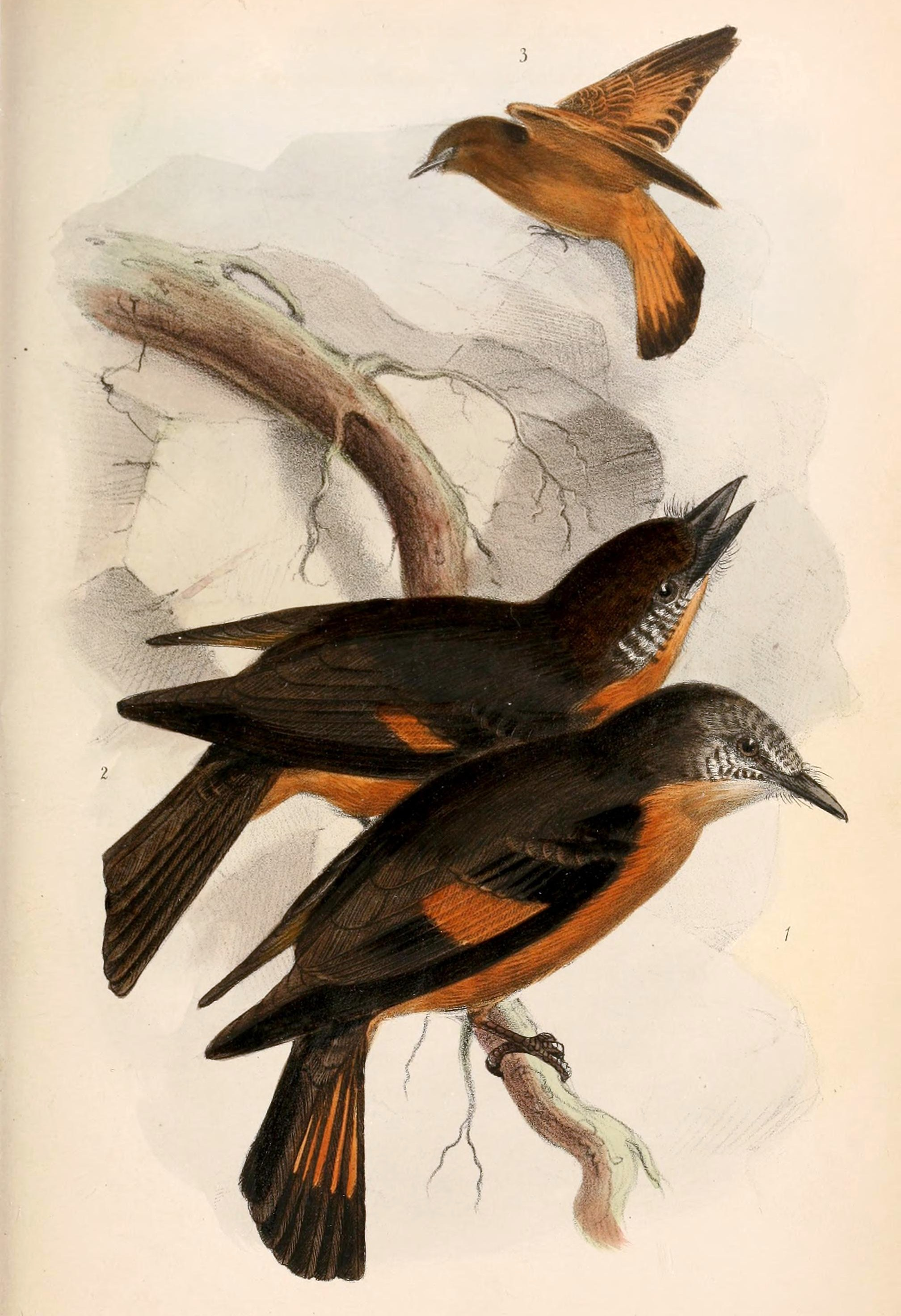 « Hirundinea bellicosa » = Hirundinea ferruginea bellicosa (Subspecies of Cliff Flycatcher) « Hirundinea ferruginea » = Hirundinea ferruginea ferruginea (Subspecies of Cliff Flycatcher) « Hirundinea rupestris » = Hirundinea ferruginea (Cliff Flycatcher) - unidentified subspecies